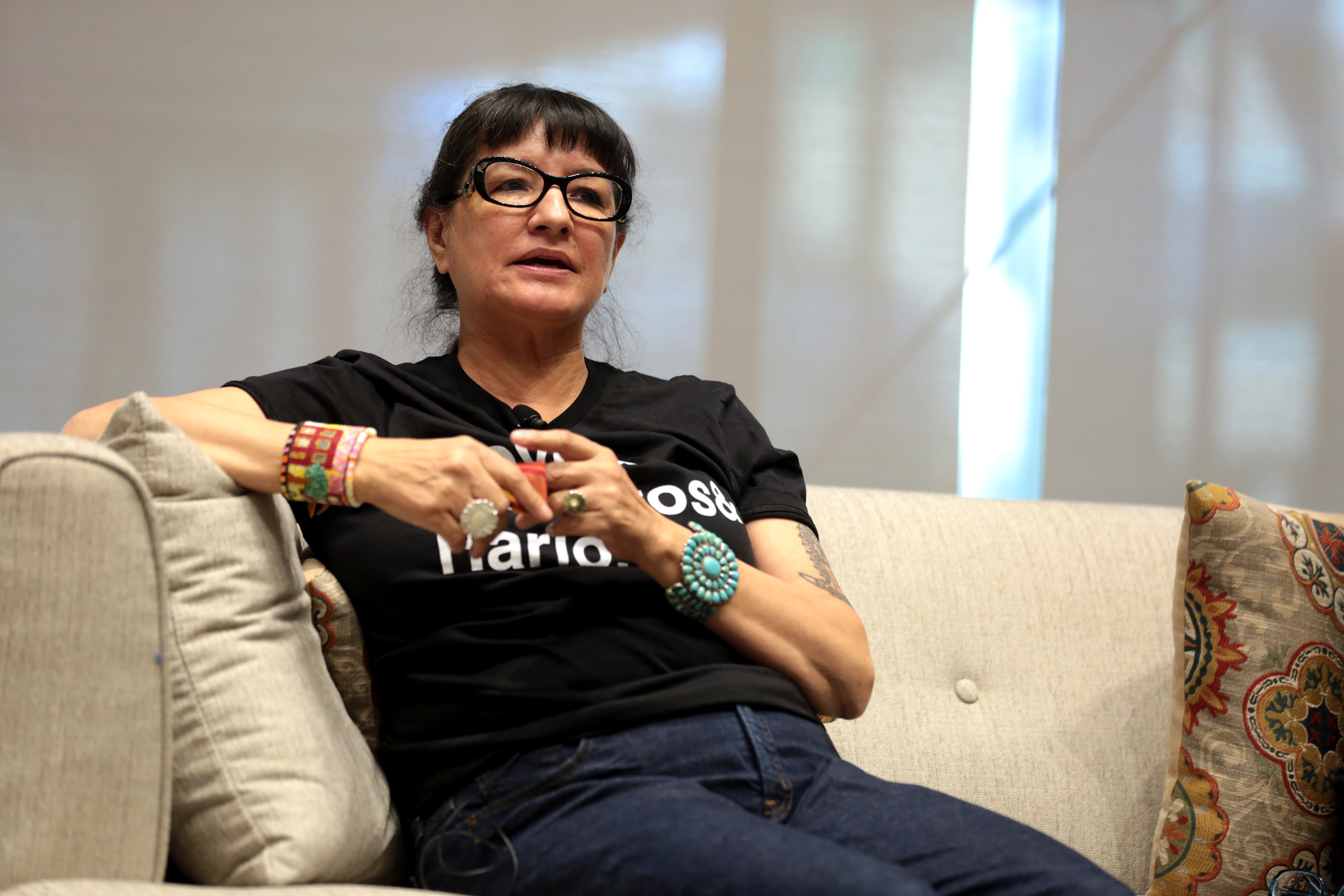 Sandra Cisneros speaking with attendees at an event titled "Legacies: A Conversation with Sandra Cisneros, Rita Dove and Joy Harjo" hosted by archiTEXTS and the Virginia G. Piper Center for Creative Writing at the Beus Center for Law and Society at the Sandra Day O'Connor College of Law at Arizona State University in Phoenix, Arizona.